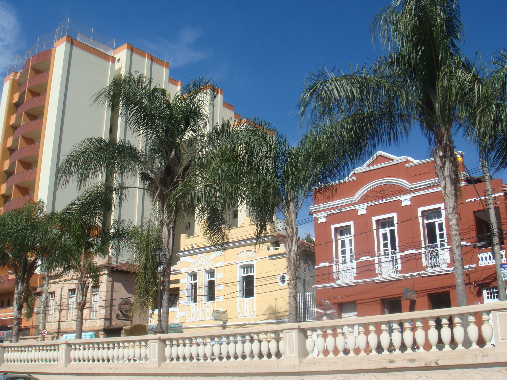 Av. Bueno Brandão 304, 322, 340b